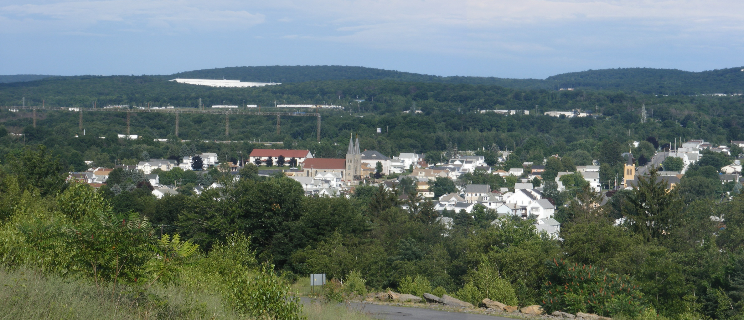 Dupont, PA panorama from Pittston Township. I-81, and MALSR approach system for Wilkes-Barre/Scranton International Airport can be seen in the background